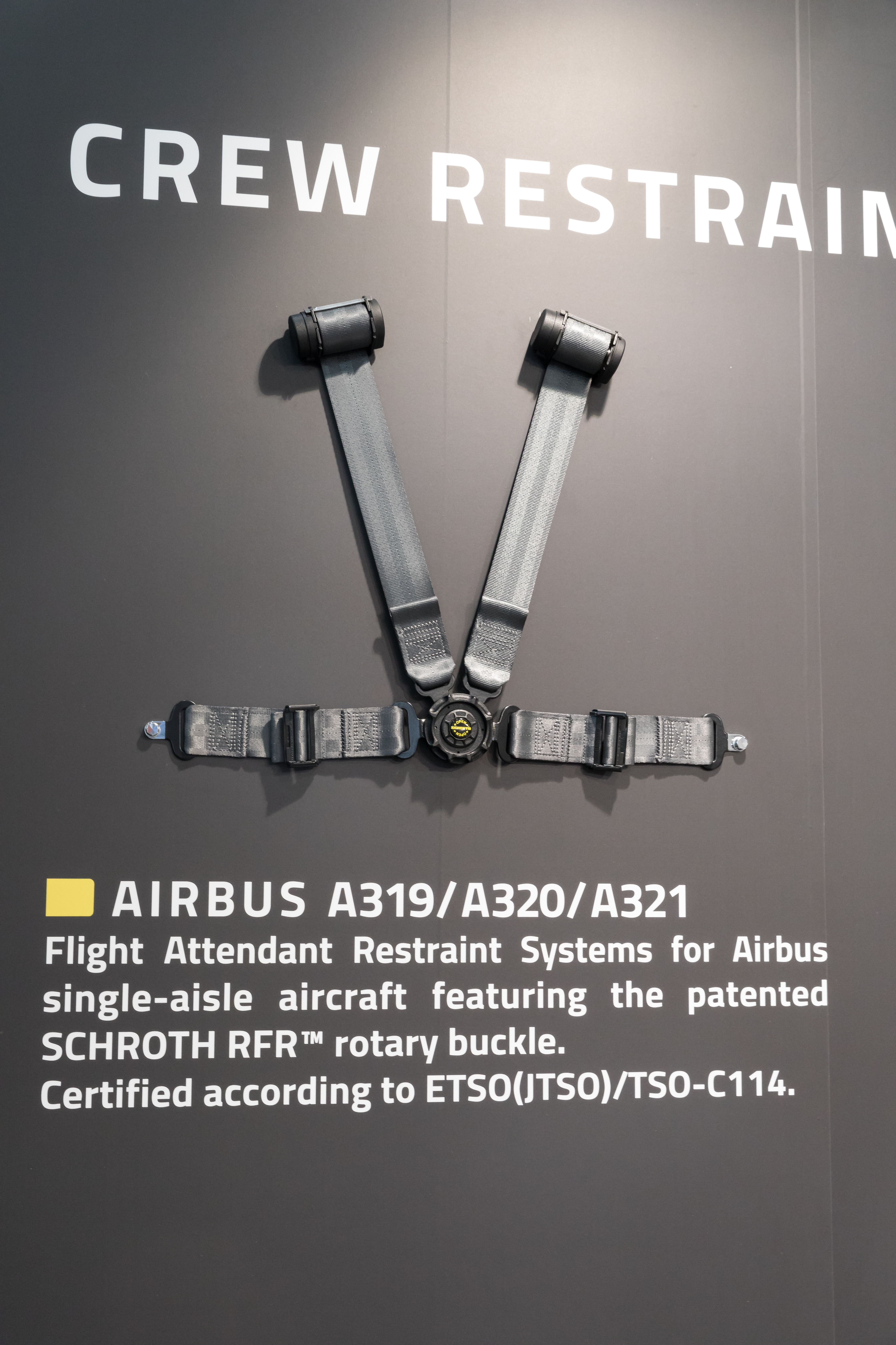 Passenger Experience Week 2018, Hamburg